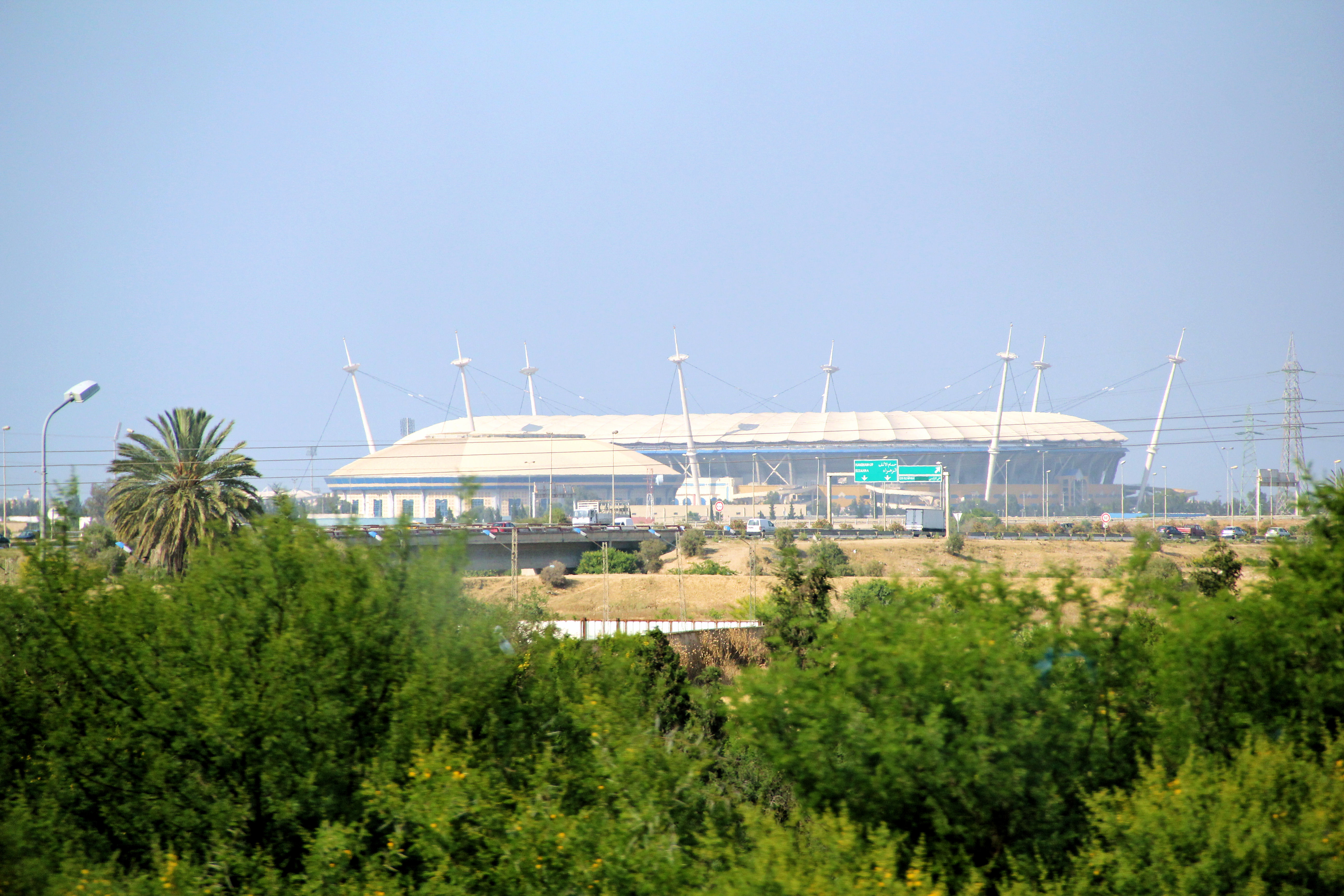 Ben Arous، Tunisia